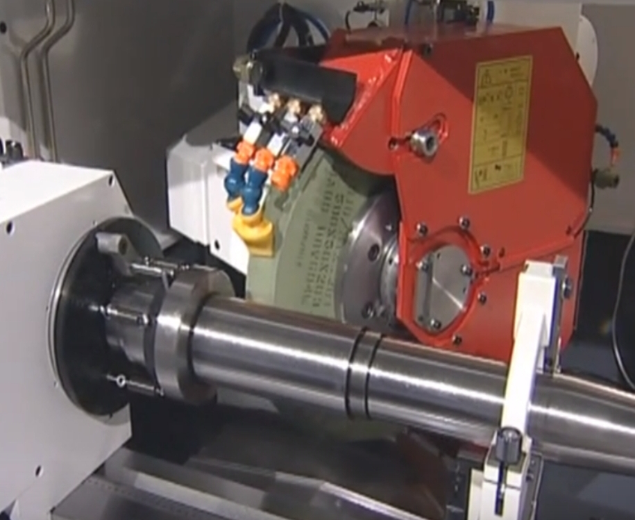 cylindrical grinder